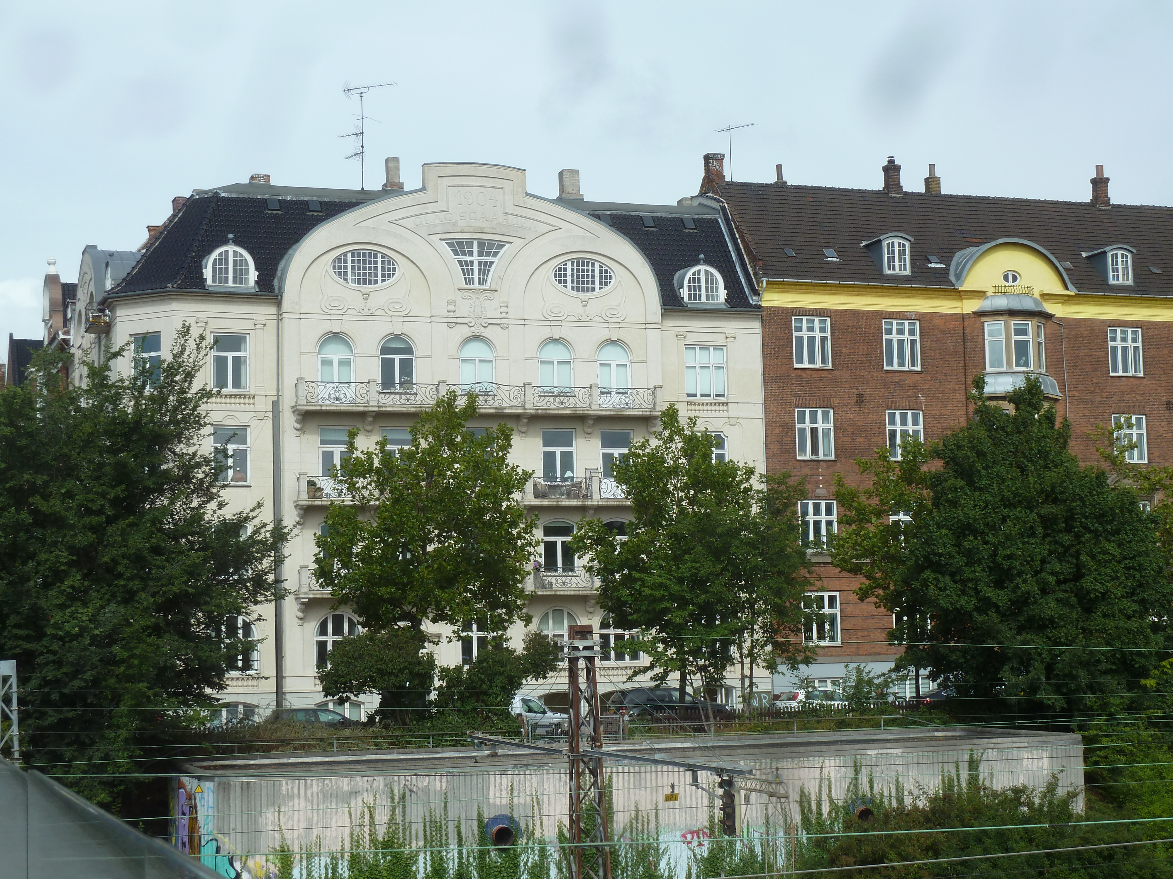 Glacisgaarden on Østbanegade in Copenhagen, Denmark